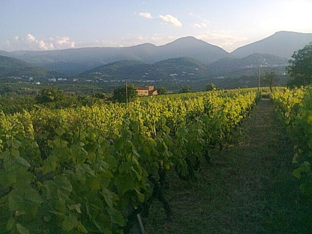 This vineyard produces the Xinomavro witch is the principal red wine grape of the uplands of the Naoussa in the prefecture of Imathia, and Amyntaion areas, in Northern Greece. This picture is taken from a vineyard in Naoussa area.